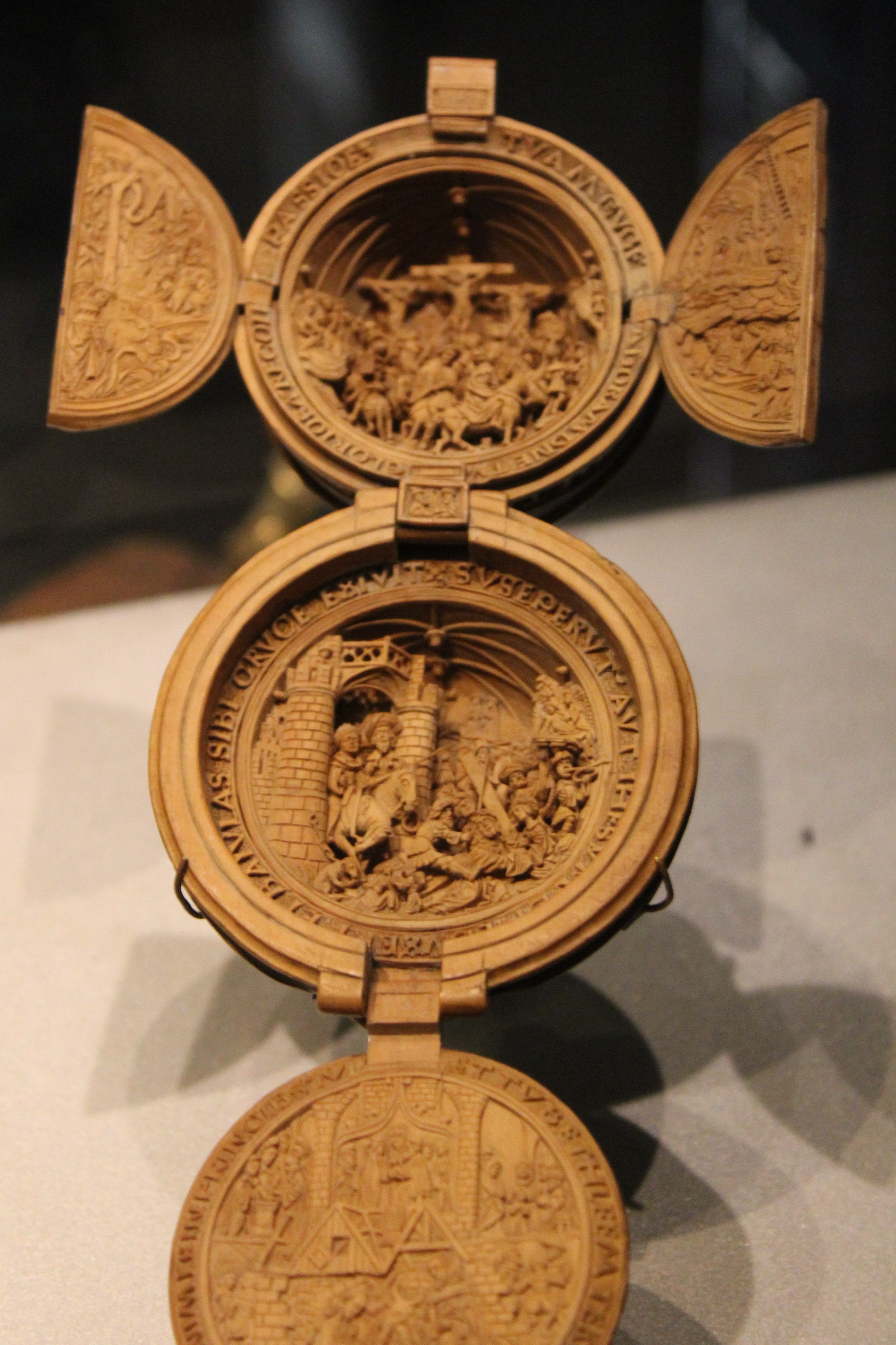 Prayer nut with flaps, Waddesdon Bequest